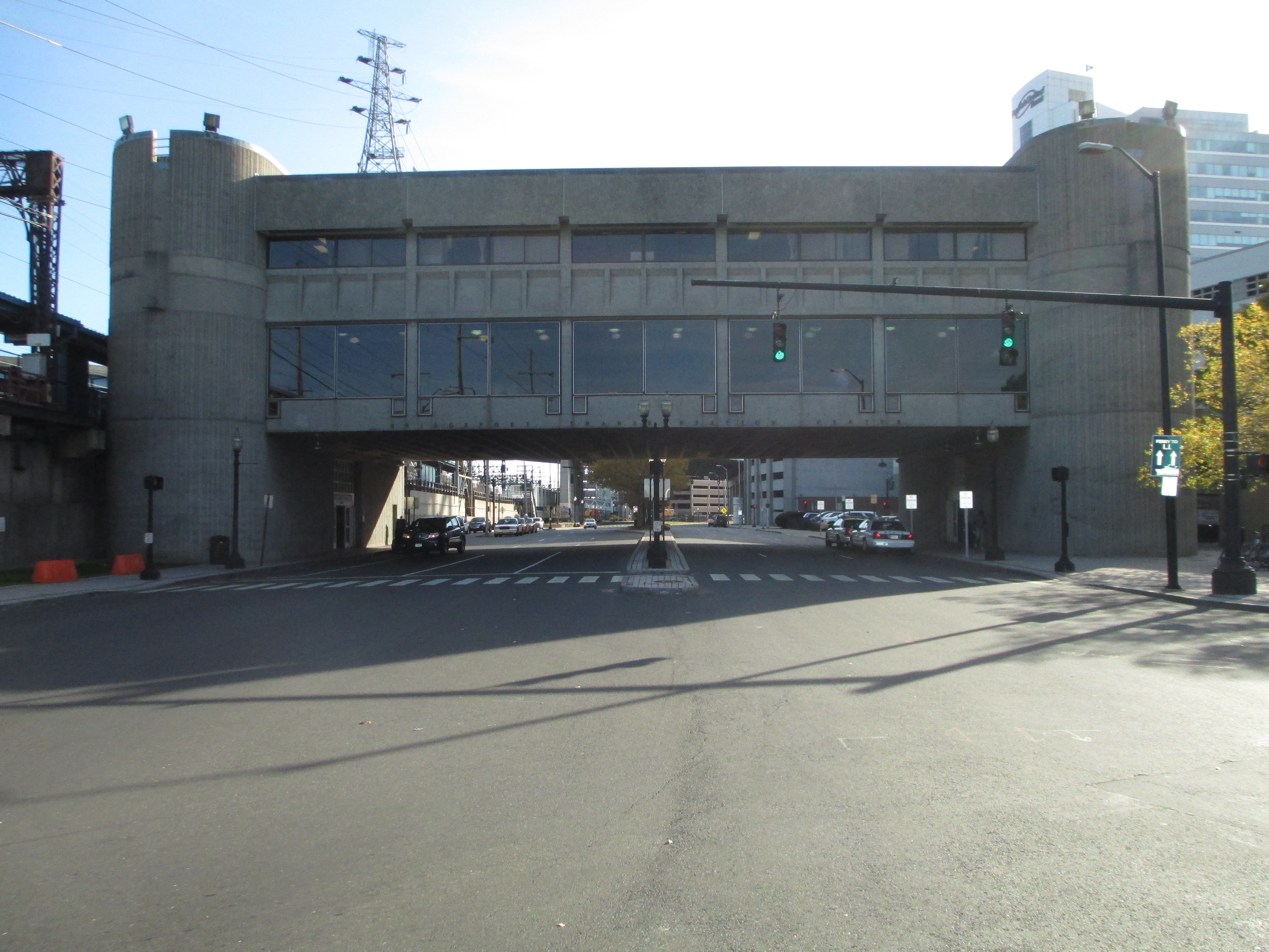 Bridgeport station over a local road